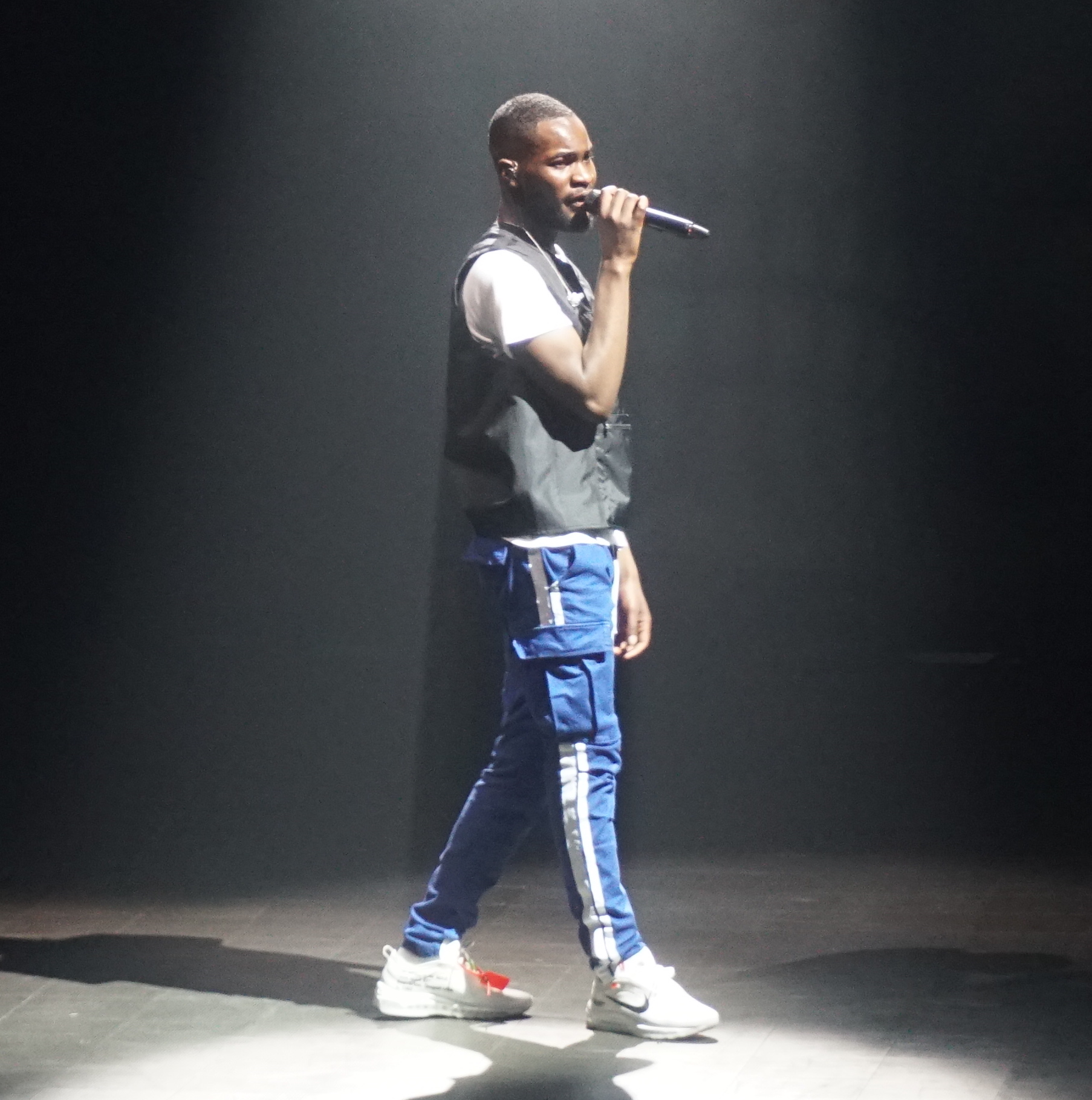 The rapper, Santan Dave during his live performace at the O2 Academy in Brixton on May 3rd 2019.